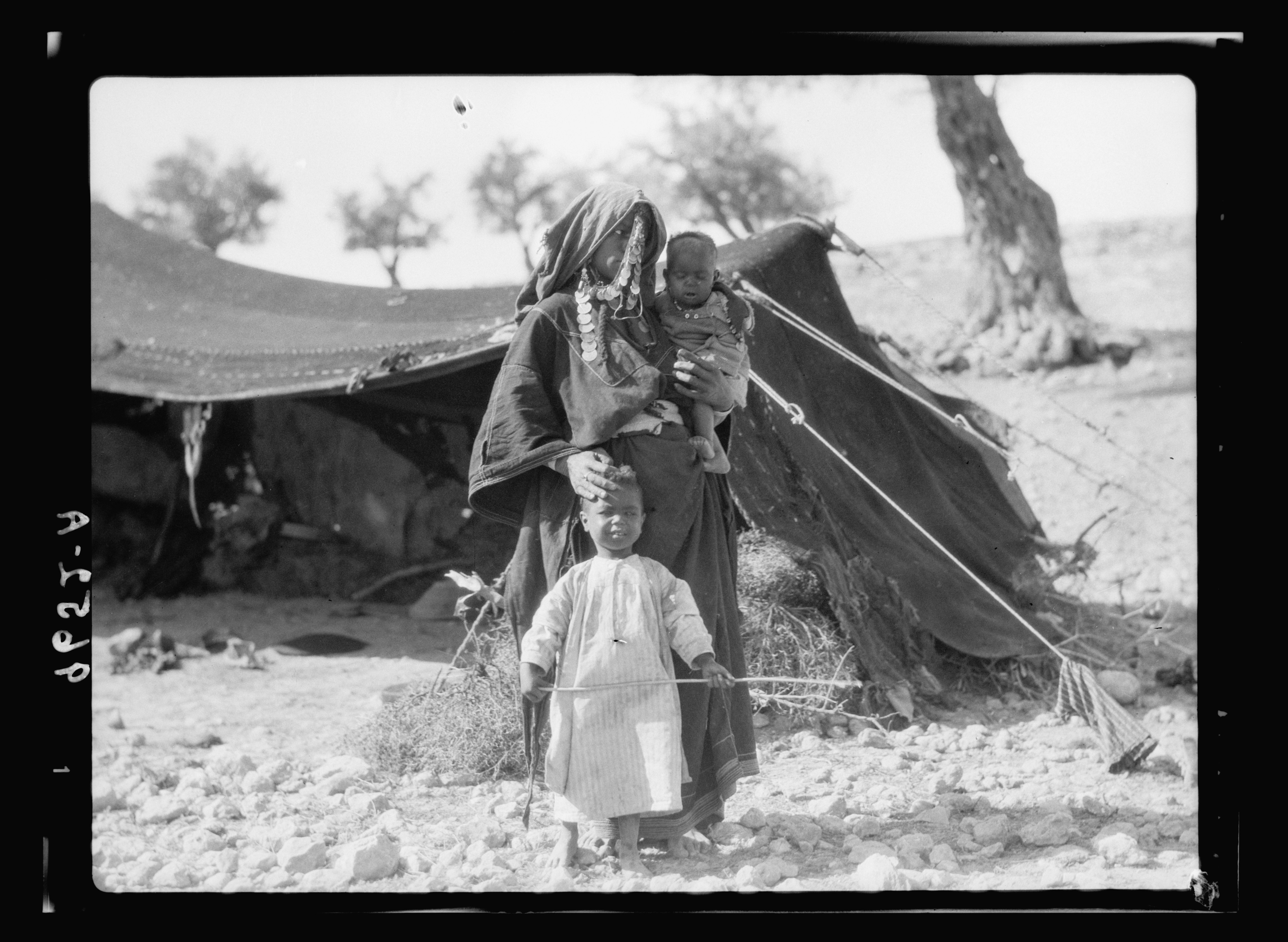 Title: Sir Harold MacMichael H.E. (i.e., His Excellency) in Beersheba. June 1938. Bedouin woman, with her children, of Southern Palestine, standing before their tent Abstract/medium: G. Eric and Edith Matson Photograph Collection Physical description: 1 negative